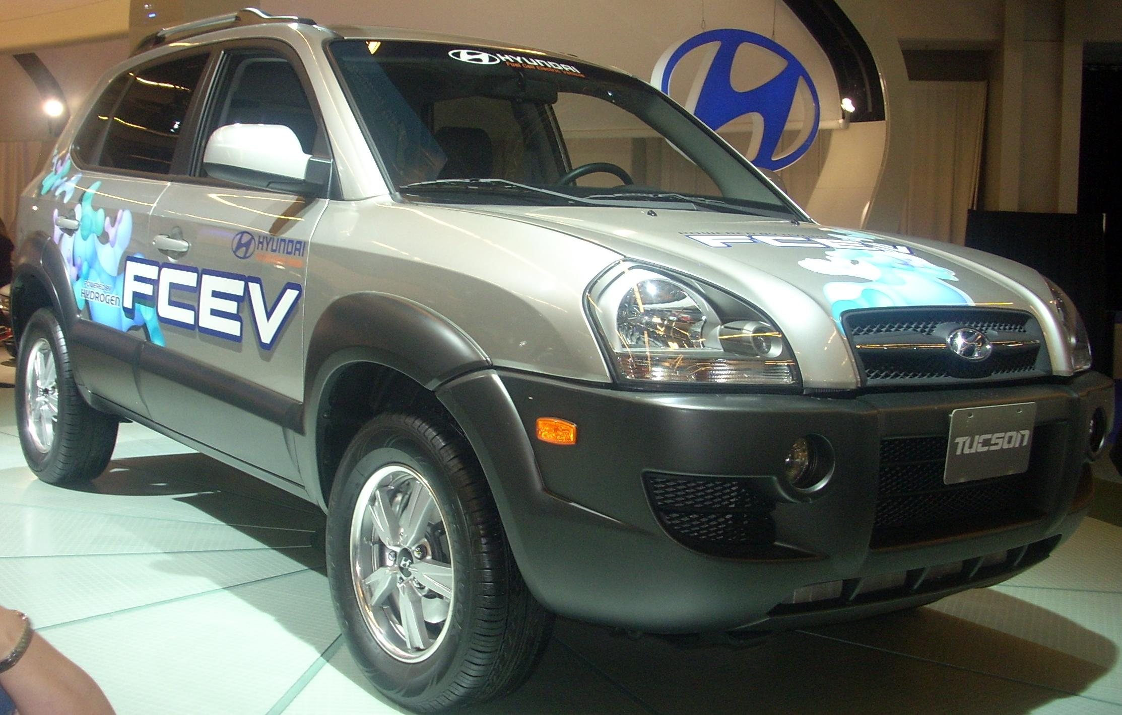 2006-2008 Hyundai Tucson FCEV photographed at the 2009 Montreal International Auto Show.